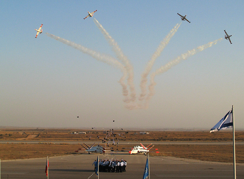 IAF cadet graduation ceremony, #154